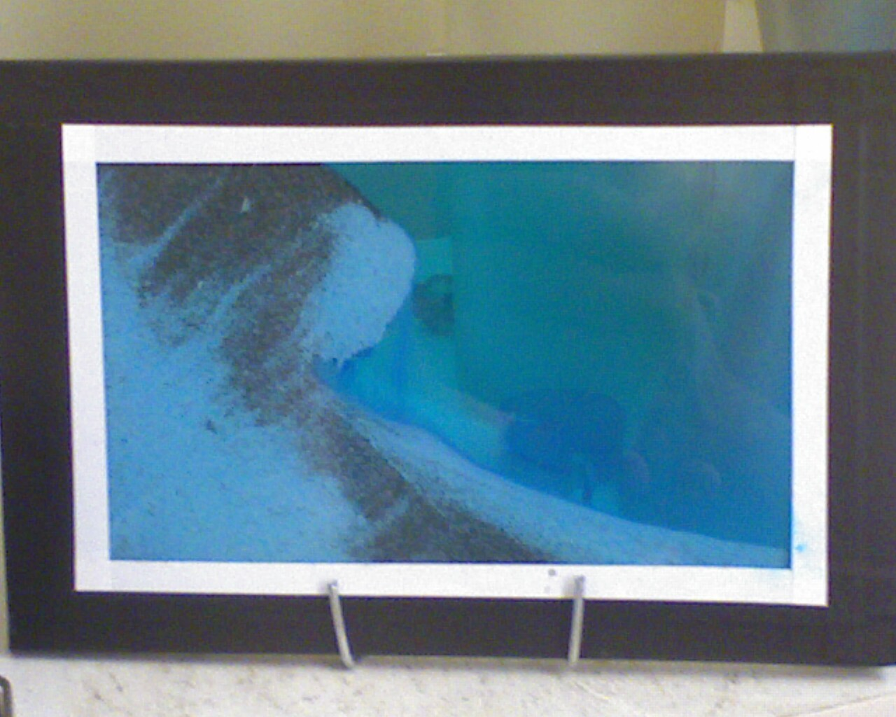 A sand glass after being turned to its side, as the sand moves to settle